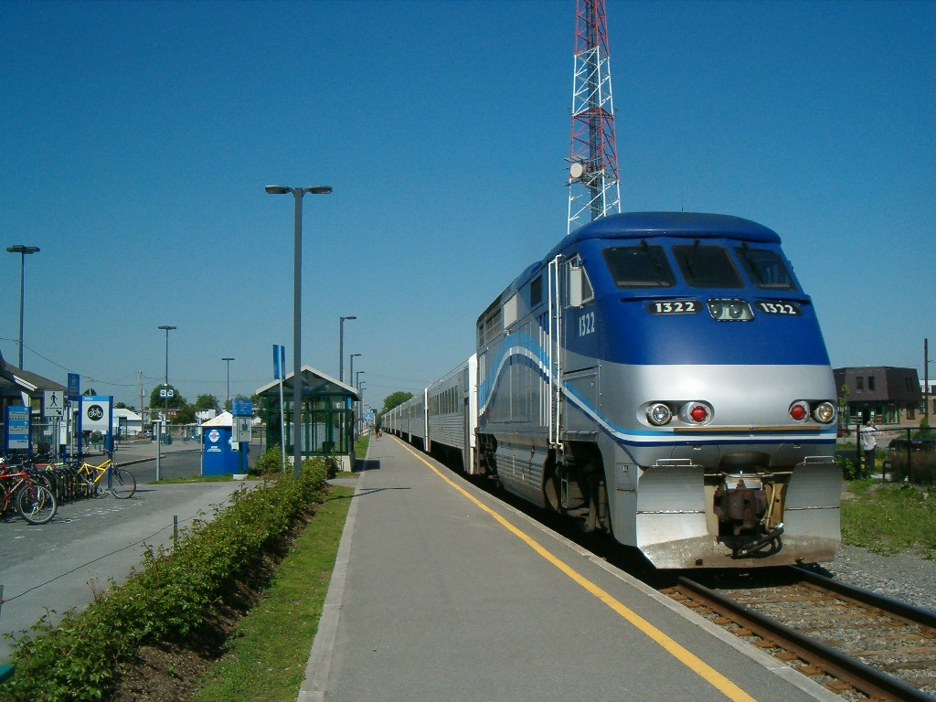 A train at AMT Sainte-Therese station